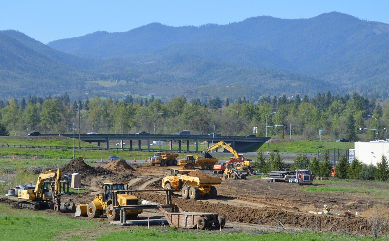 Looking southwest at the Fern Valley Interchange.